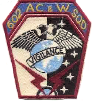 Emblem of the 602d Aircraft Control and Warning Squadron, Geiebelstadt AB, West Germany